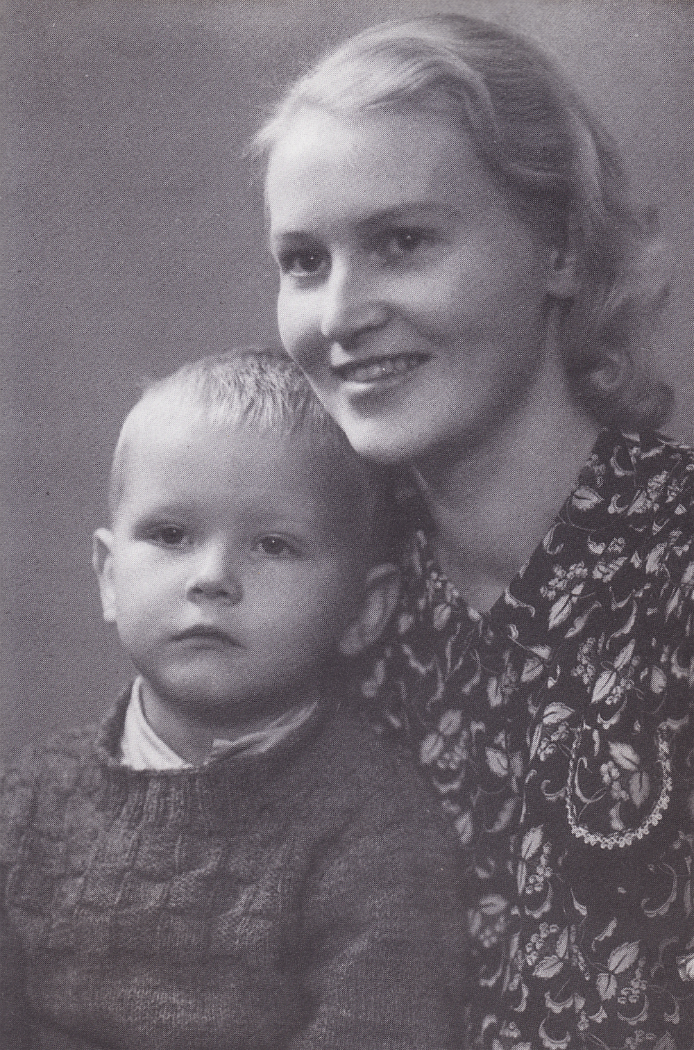 Finnish singer-songwriter Juha Vainio as a child and his mother Kaarina.